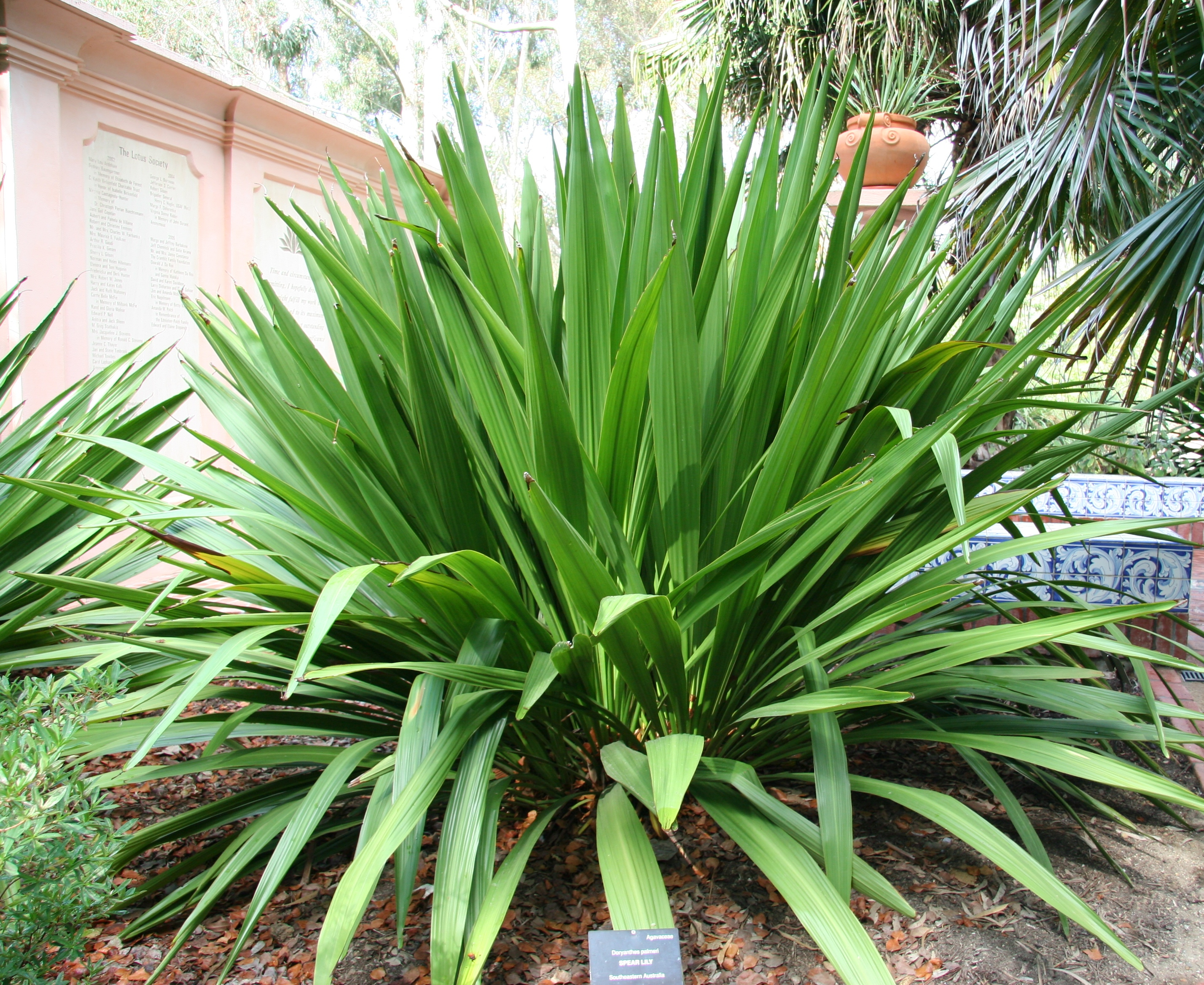 Doryanthes palmeri — Giant Spear Lily. In the landscape gardens at Lotusland, near Santa Barbara, California. Native to Australia.